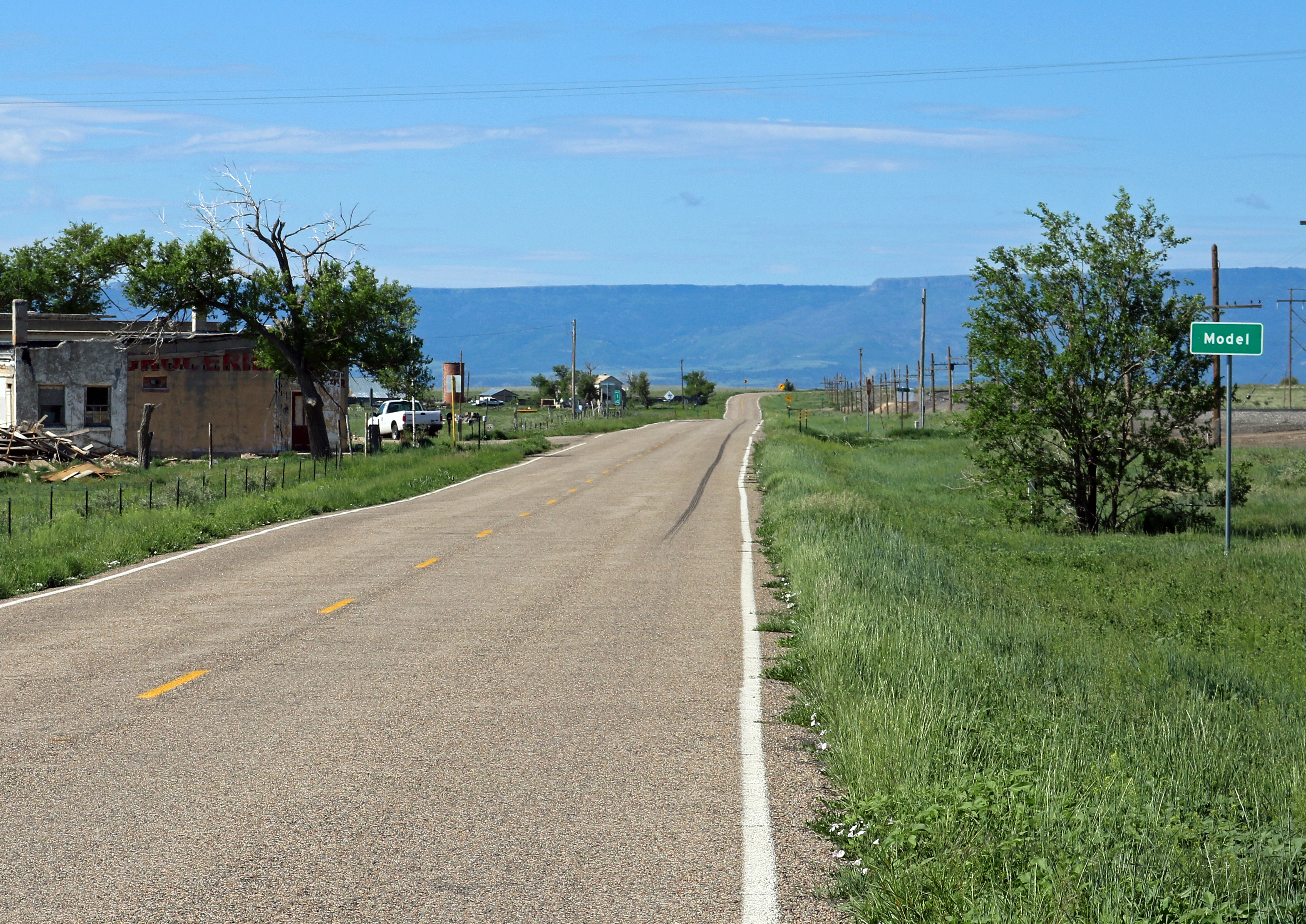 The community of Model, Colorado, located along U.S. Route 350 in Las Animas County, Colorado. Raton Mesa is visible in the distance.